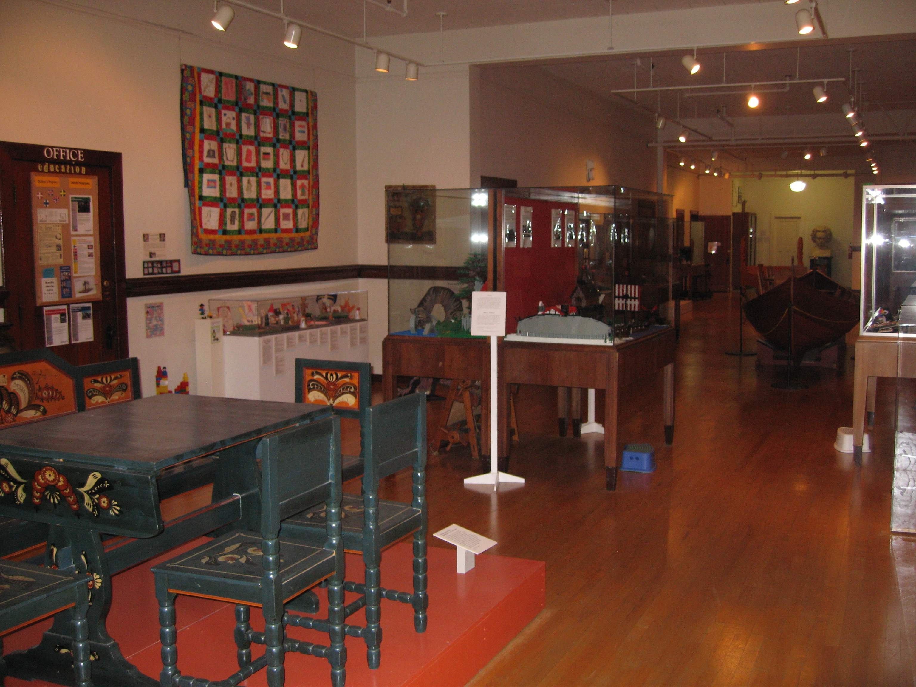 Nordic Heritage Museum, Ballard, Seattle. Interior.